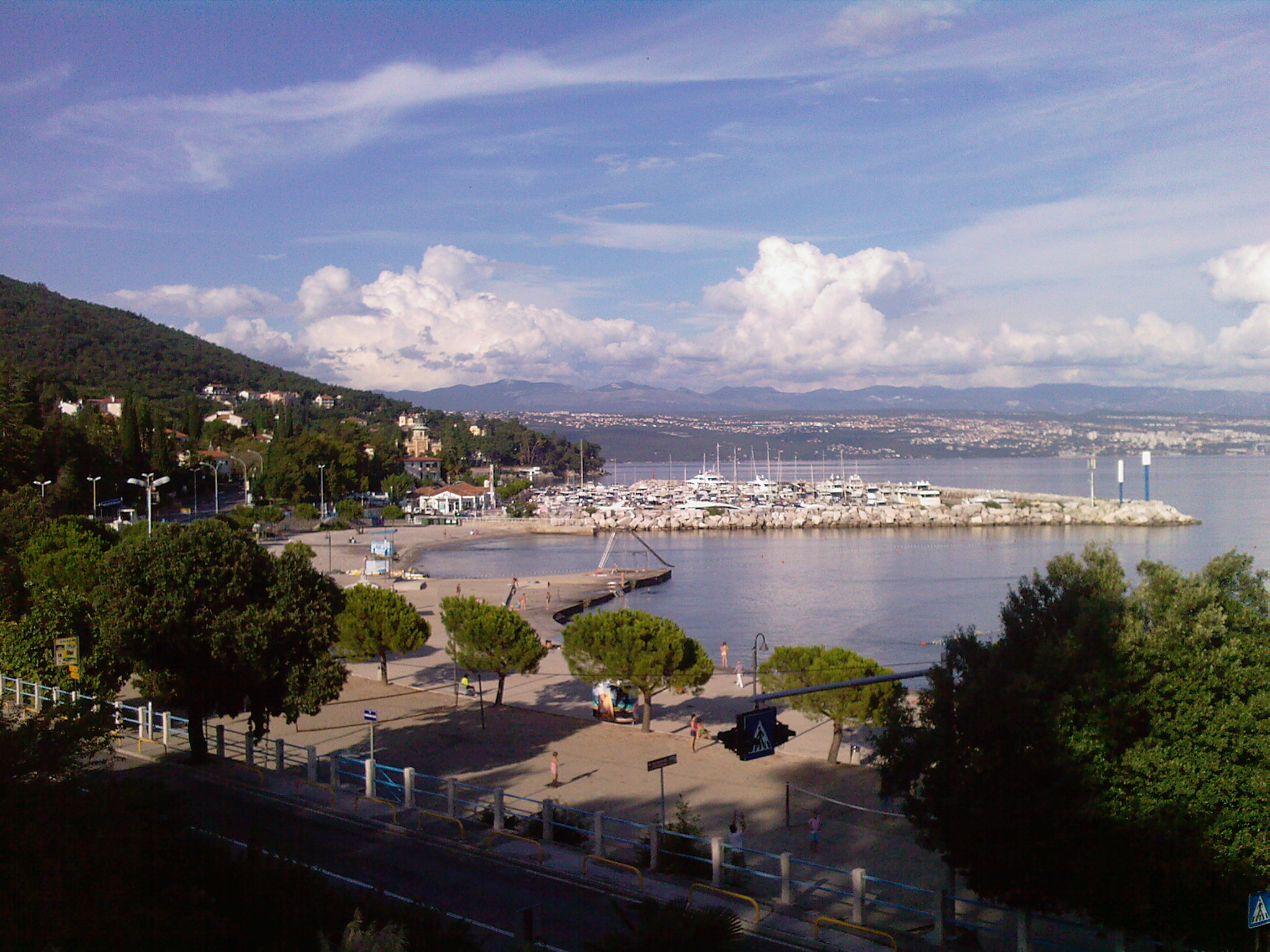 Icici in Croatia what looks like after the rain